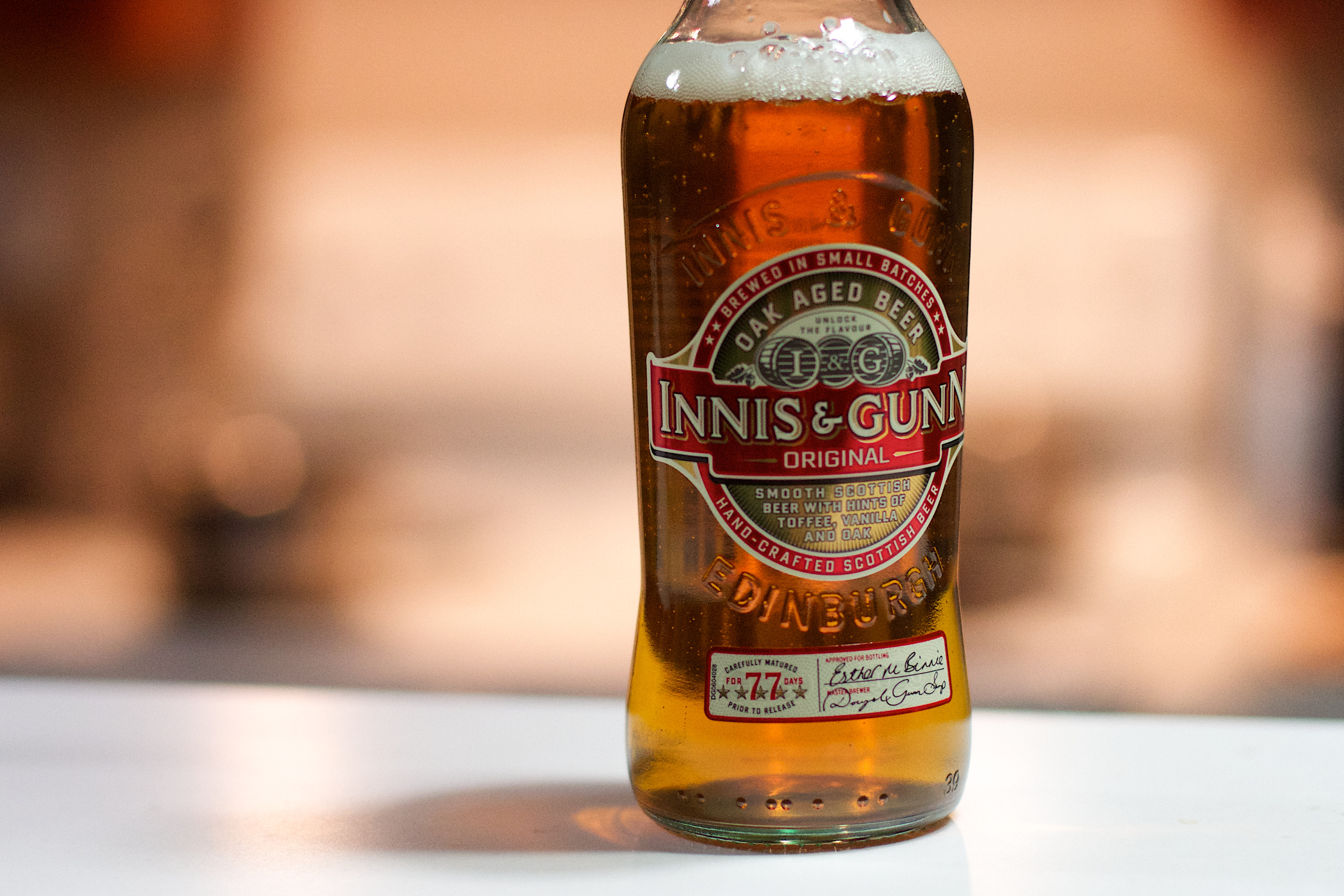 It works for me.